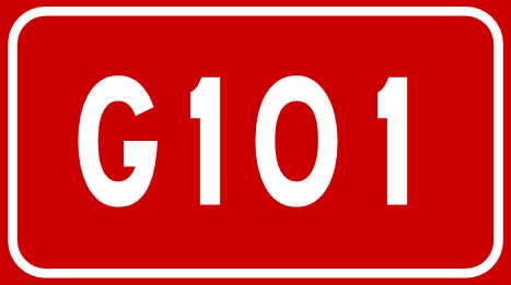 The marker of China Highway 101 中文（中国大陆）: 中国国道101线标志